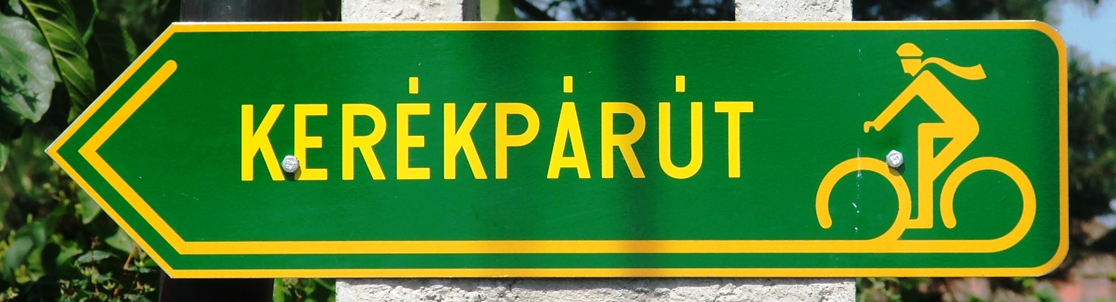 Bikeway sign, Verőce, Hungary